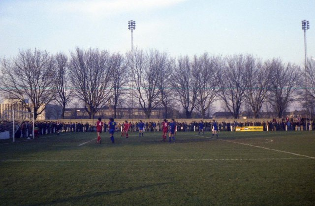 Barking Football Club, Mayesbrook Park Barking 1 Oxford United 0, FA Cup 1st round